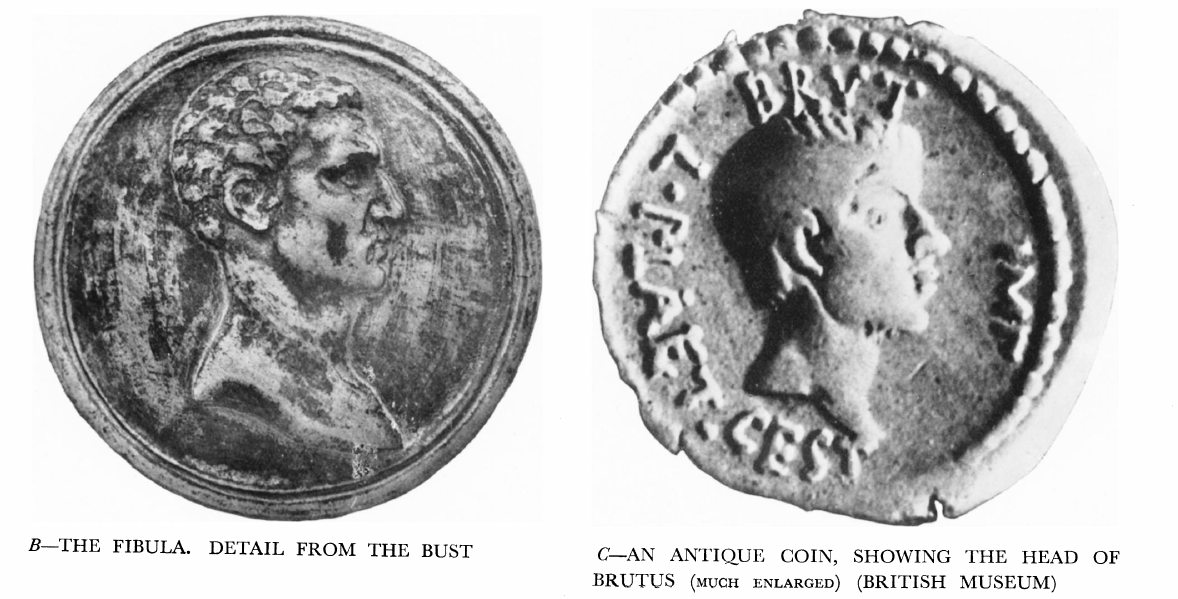 De Tolnay writes: "No drawings for the Brutus have been preserved to us, but there is a sculptured preliminary study on the bust itself: on the fibula holding the drapery, hitherto quite unnoticed, is a fine relief [Plate I, B], obviously wrought by Michelangelo himself, which could only have been made for the artist's own use as it is not visible to the spectator. It must have been made before the head of the bust was begun as a preliminary study, and represents a head in profile with naked neck and base, reproducing exactly the pose of the heads of Brutus on antique coins [Plate I, C]. Vasari's statement, therefore, that Michaelangelo drew his inspiration from antique gems is, at all events in part—proved to be correct—not for the bust itself but for the preliminary study."